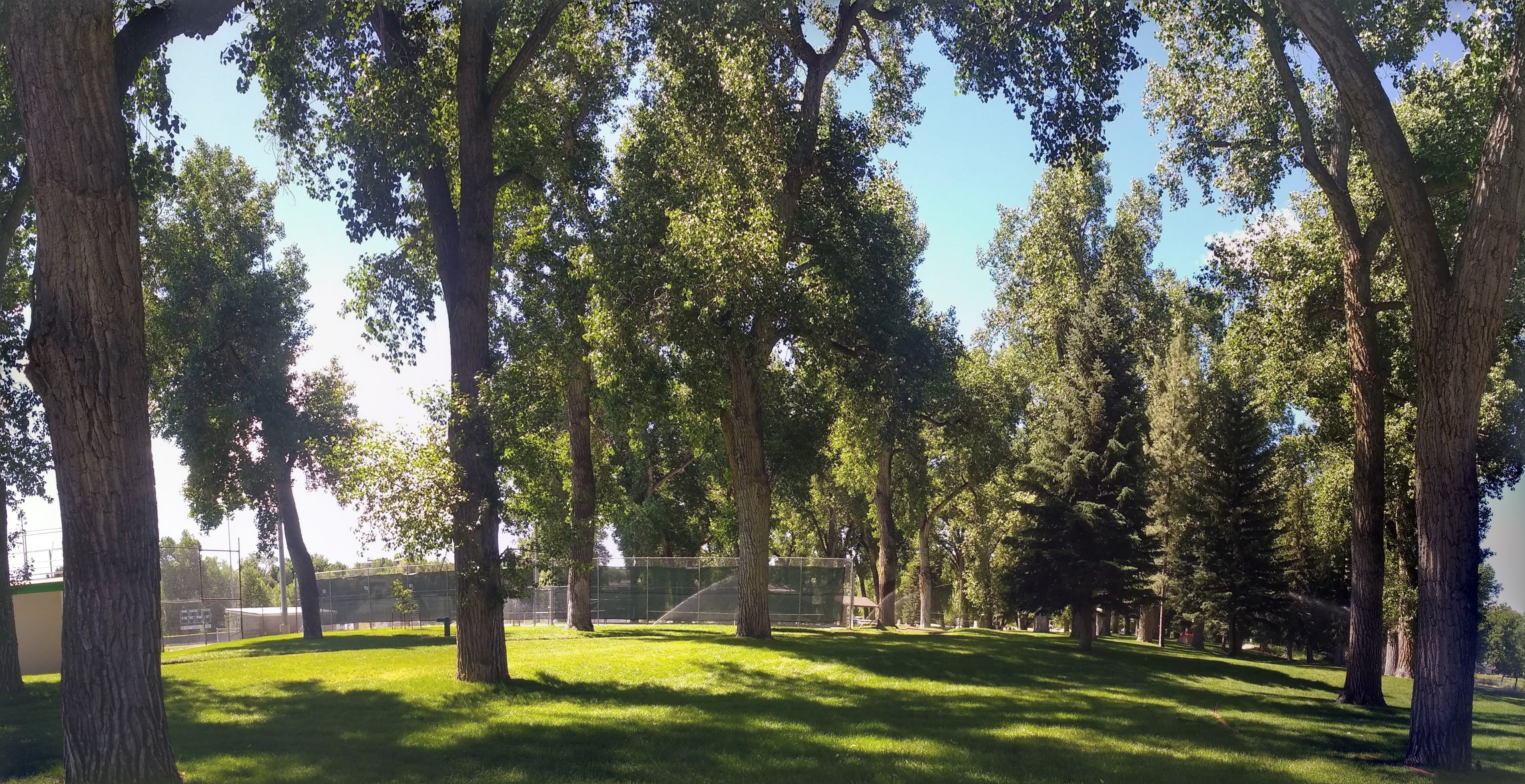 Lander City Park July 2018